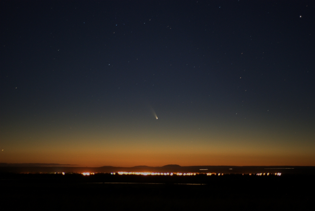 Comet C/2011 L4 (Pan-STARRS)) over the Brisbane Ranges on 3 March 2013.